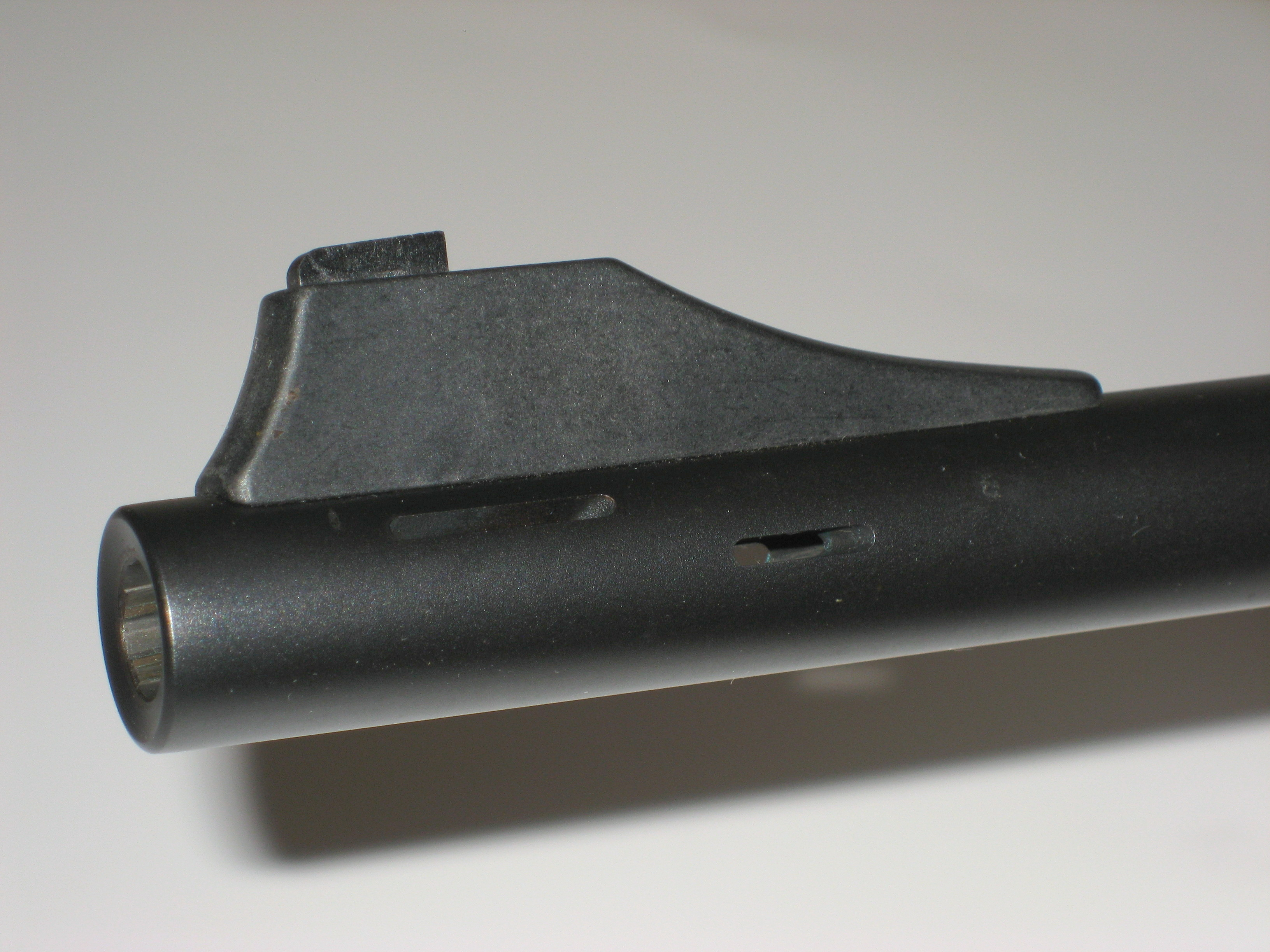 Muzzle of a Blaser R-93 Safari Hunting Rifle, cal. .375 H&H Mag, showing its porting or integral muzzle brake